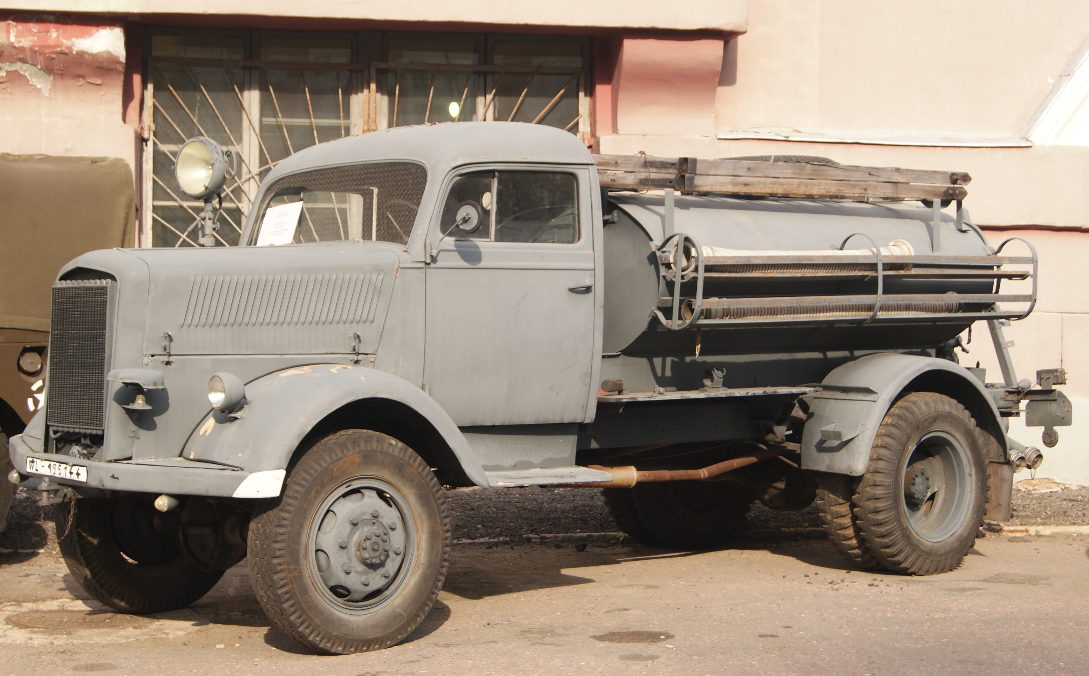 Opel Blitz 3,6-6700A TLF15/43 Luftwaffe 4x4 fire engine in the Museum of Retro Cars, Moscow